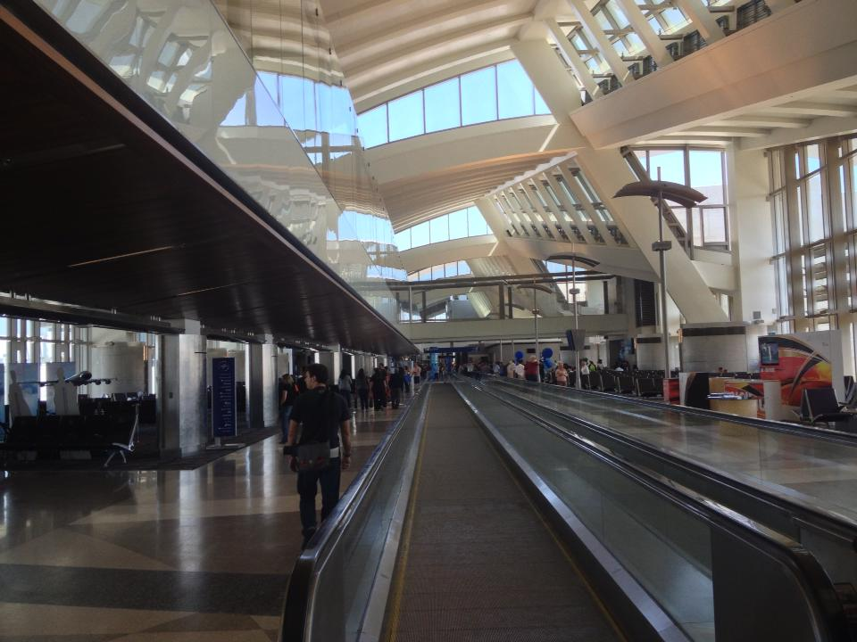 New moving sidewalks installed in the Tom Bradley international terminal at LAX. An elevated arrival corridor which leads to US Customs is seen on the upper left.